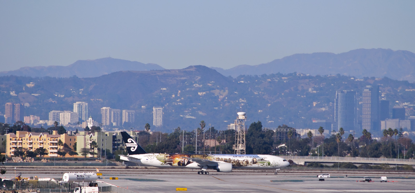 First delivered a year earlier, this 777-300ER, one of five in the Air New Zealand fleet, just received the special "The Hobbit"; livery. I had been between runways 24L and 24R, expecting this aircraft to come to 24R, but upon seeing tracking data showing it flying a northbound base leg, expected it to land on 25R instead. But just as I switched over to Imperial Hill, it landed on 24R, so this distant look was the best I could do. The Hobbit's first visit to Los Angeles is as New Zealand 2, on its way from Auckland to London Heathrow. ZK-OKP "The Hobbit," Boeing 777-300ER